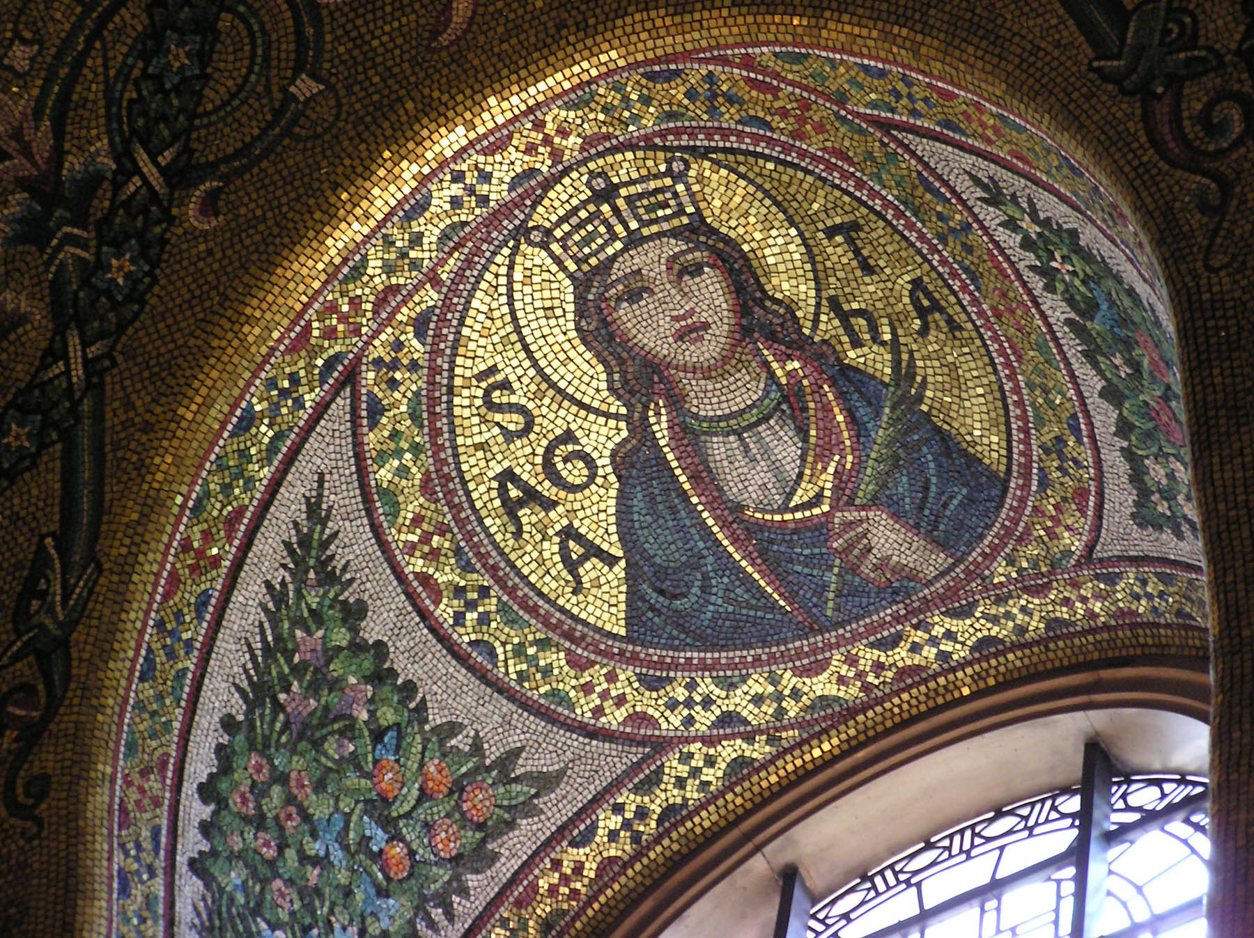 A side-chapel roof mosaic in Westminster Cathedral, London, England. Photographed by Adrian Pingstone in June 2005 and placed in the public domain.